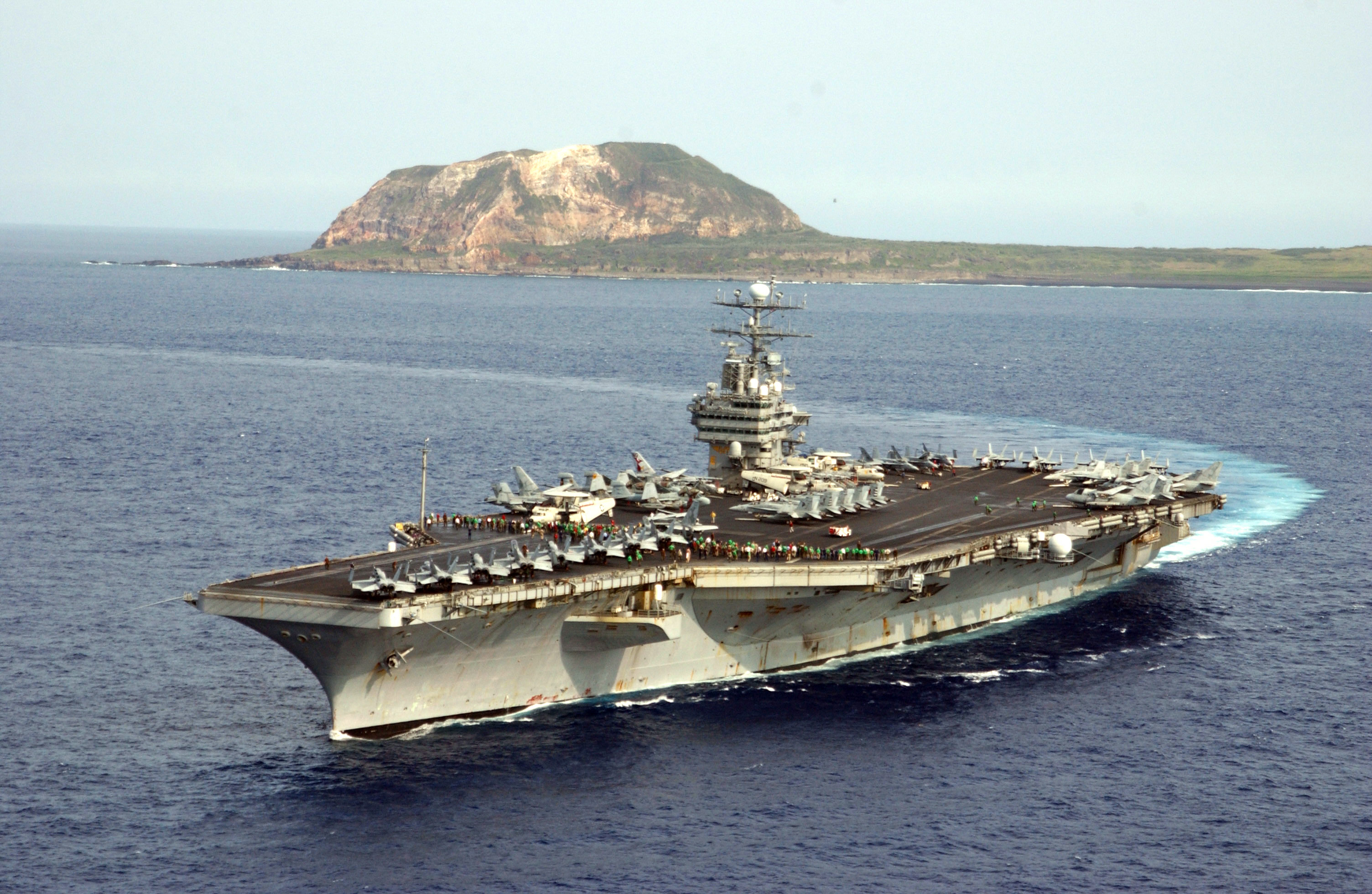 Iwo Jima, Japan (May 17, 2003) -- In this aerial view, Sailors aboard the aircraft carrier USS Carl Vinson (CVN 70) conduct a Foreign Object Damage (FOD) walkdown in preparation for flight operations as Mount Suribachi on the island of Iwo Jima sits in the background. During World War II, this island was the site of a significant naval amphibious assault, where on February 19, 1945, over 70,000 U.S. Marines and Sailors went ashore facing heavily fortified Japanese forces. U.S. casualties included over 6,800 combat deaths and over 19,000 wounded. 22,000 Japanese perished during the heated battle. The Carl Vinson Srike Force departed Bremerton in mid-January. U.S. Navy photo by Photographer's Mate 2nd Class Inez Lawson. (RELEASED)